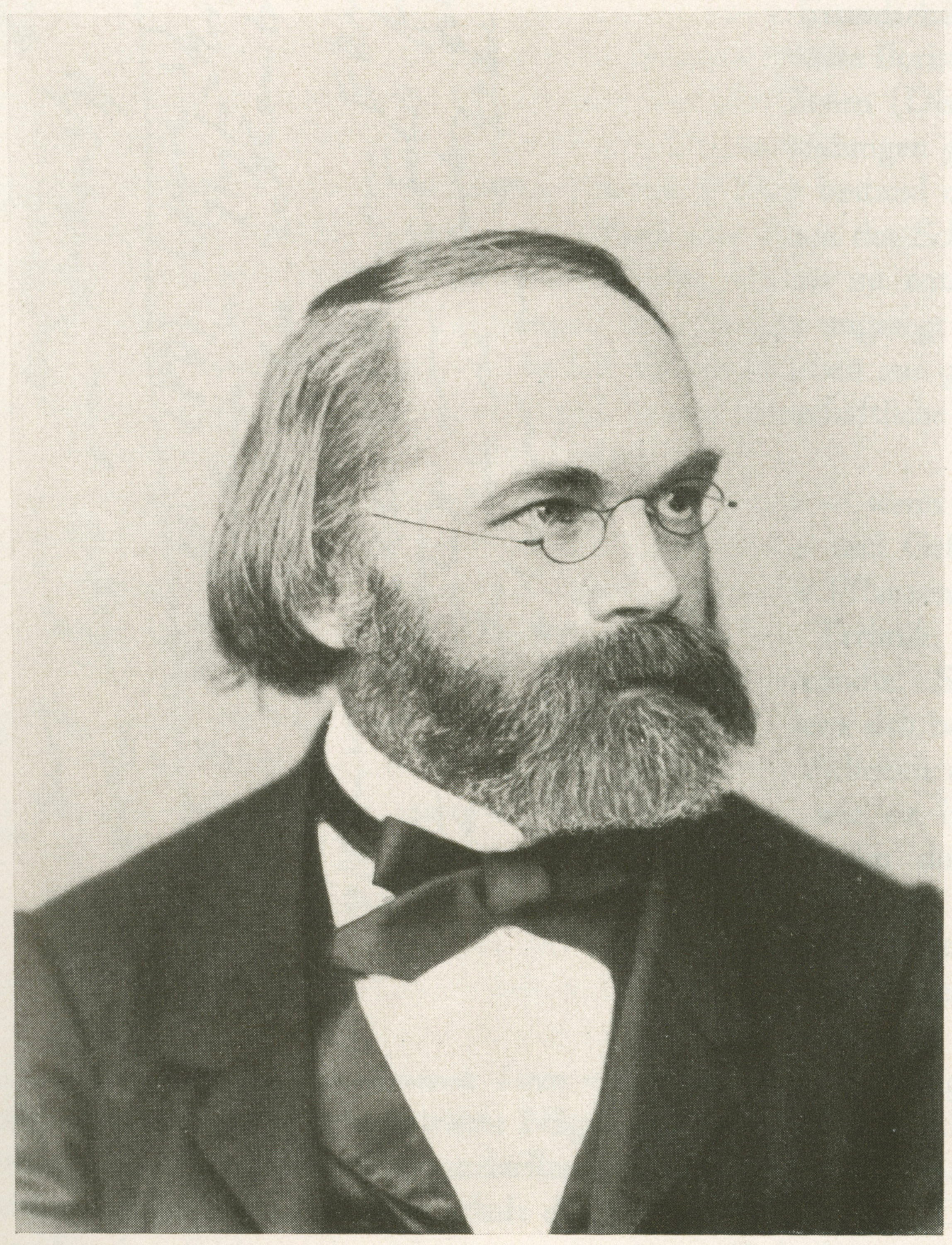 Portrait of Carl Wilhelm von Nägeli (1817–1891)